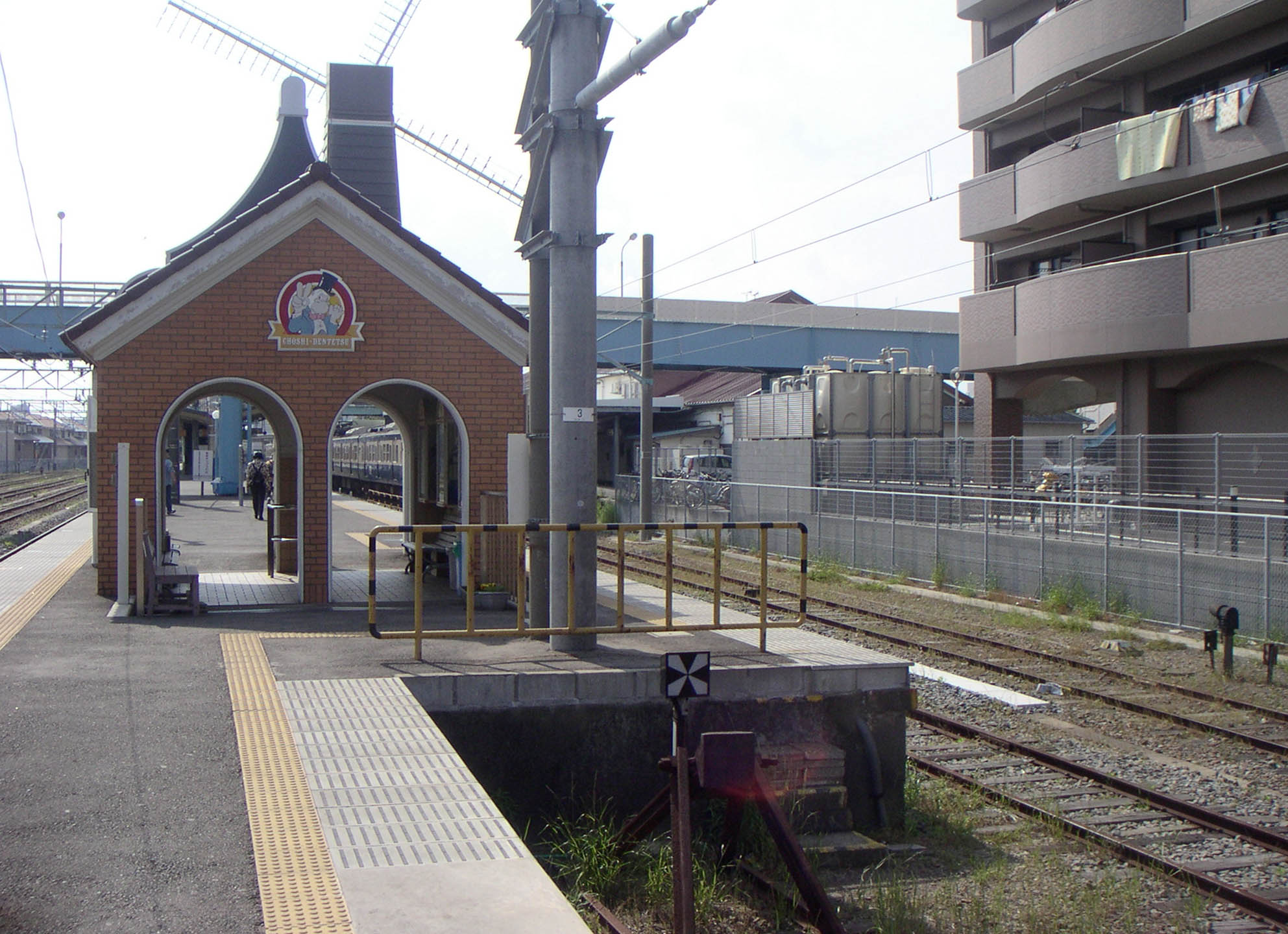 Choshi Station Source: ph by っ May 2005